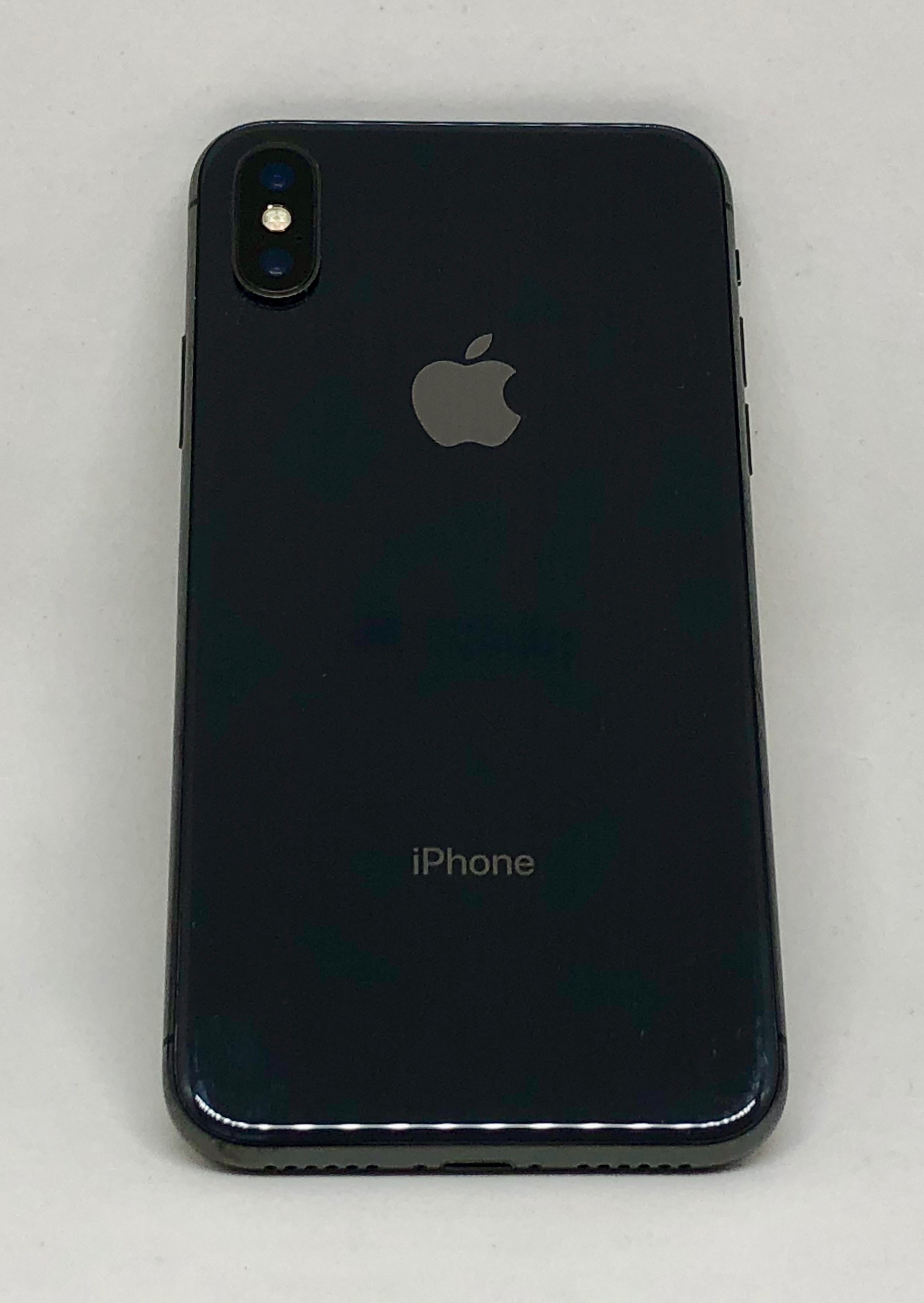 Back of Apple iPhone X - Space Gray